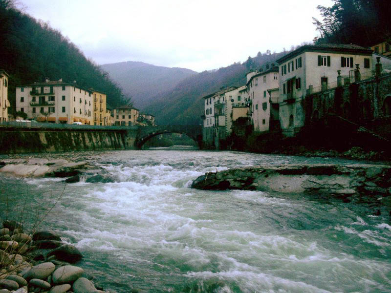 Lima river to Bagni di Lucca, Toscany, Italy